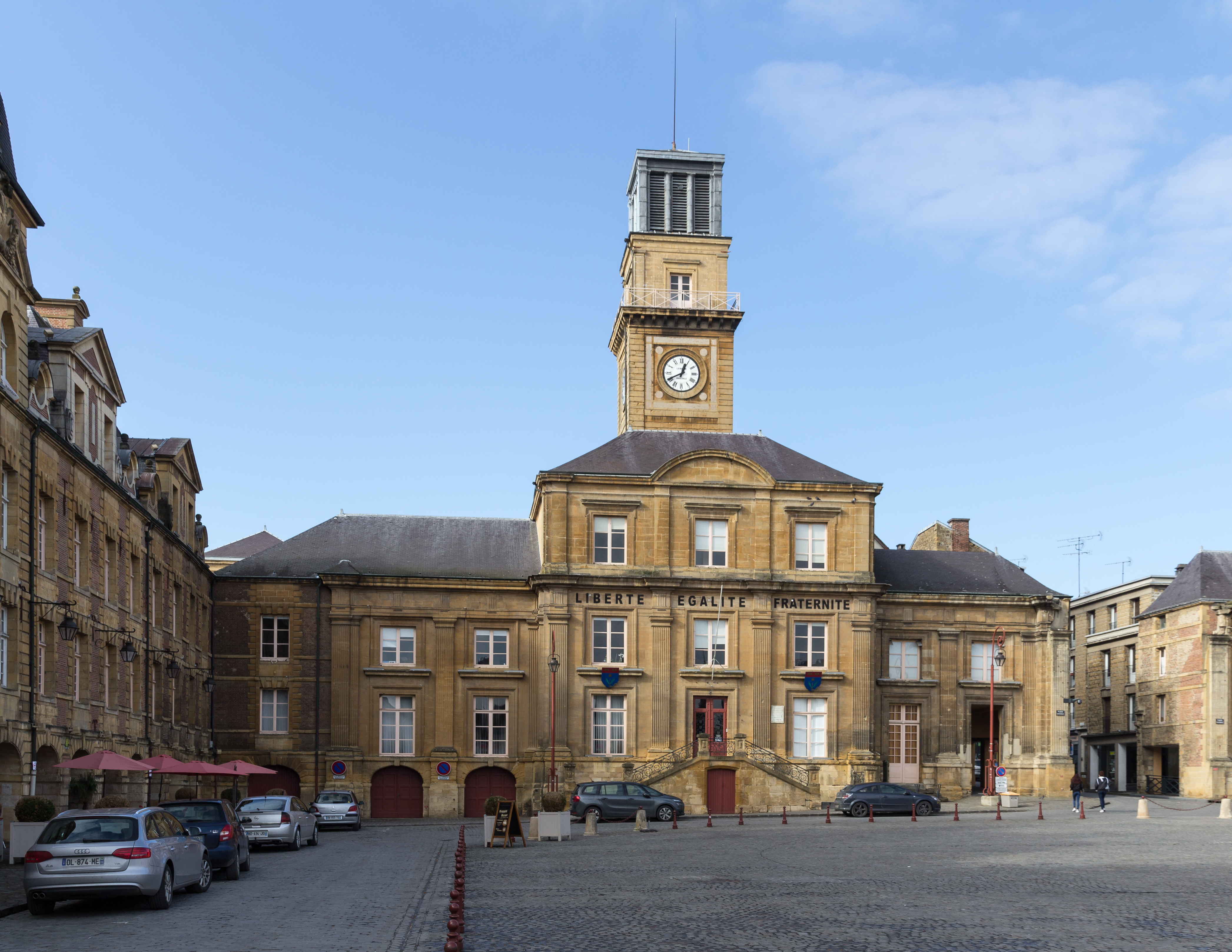 Hôtel de ville, Charleville-Mézières, France .